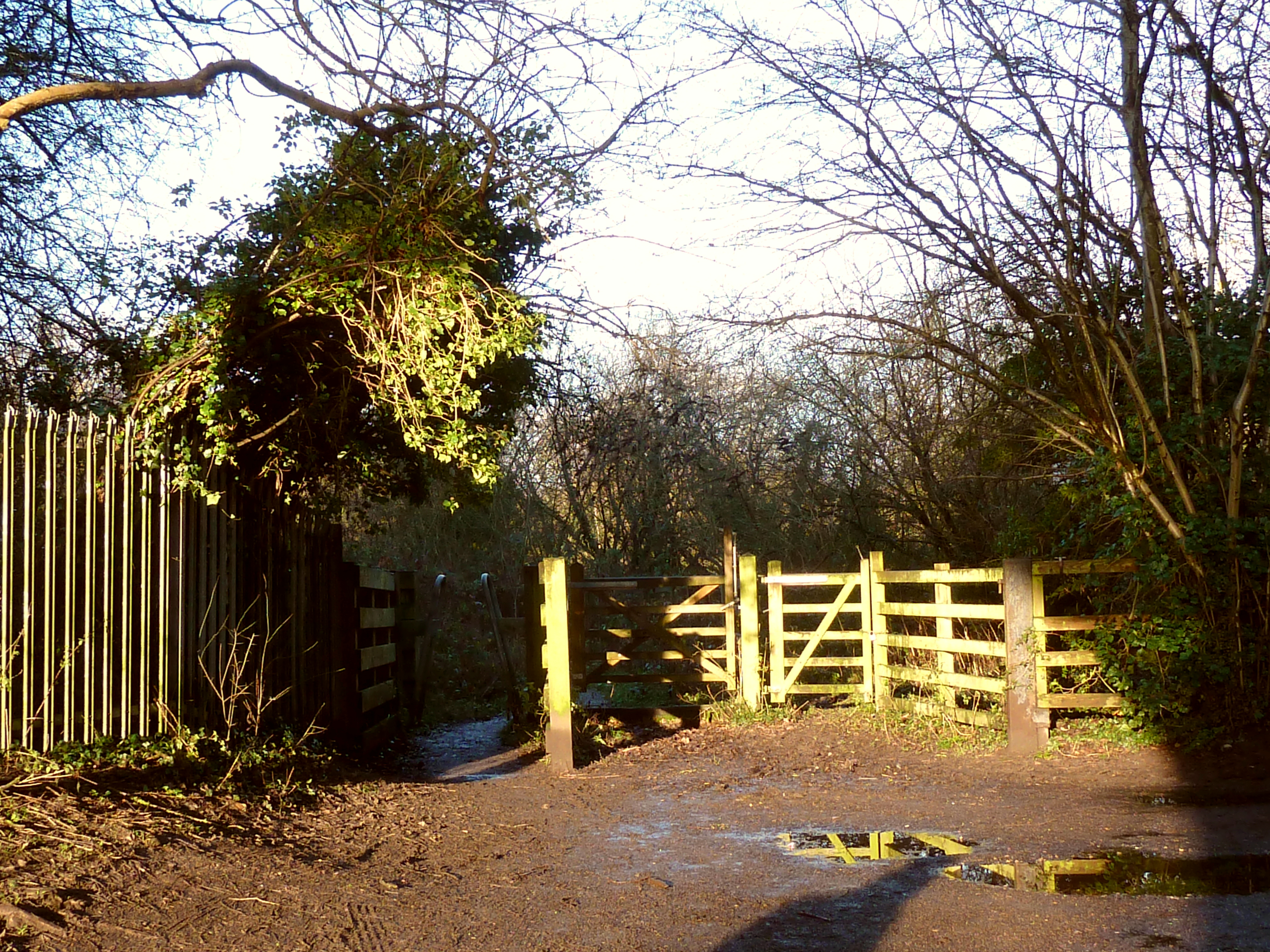 Hay-a-Park nature reserve, adjacent to the east side of Knaresborough, North Yorkshire, England. This area has been designated a Site of Special Scientific Interest (SSSI. The site has no main entrance, no visitor facilities and no car park. It has a large lake with a few smaller lakes at the south end of the site, some woodland, and some fields maintained by grazing. Showing unlabelled entrance at south end of site, adjacent to railway bridge.